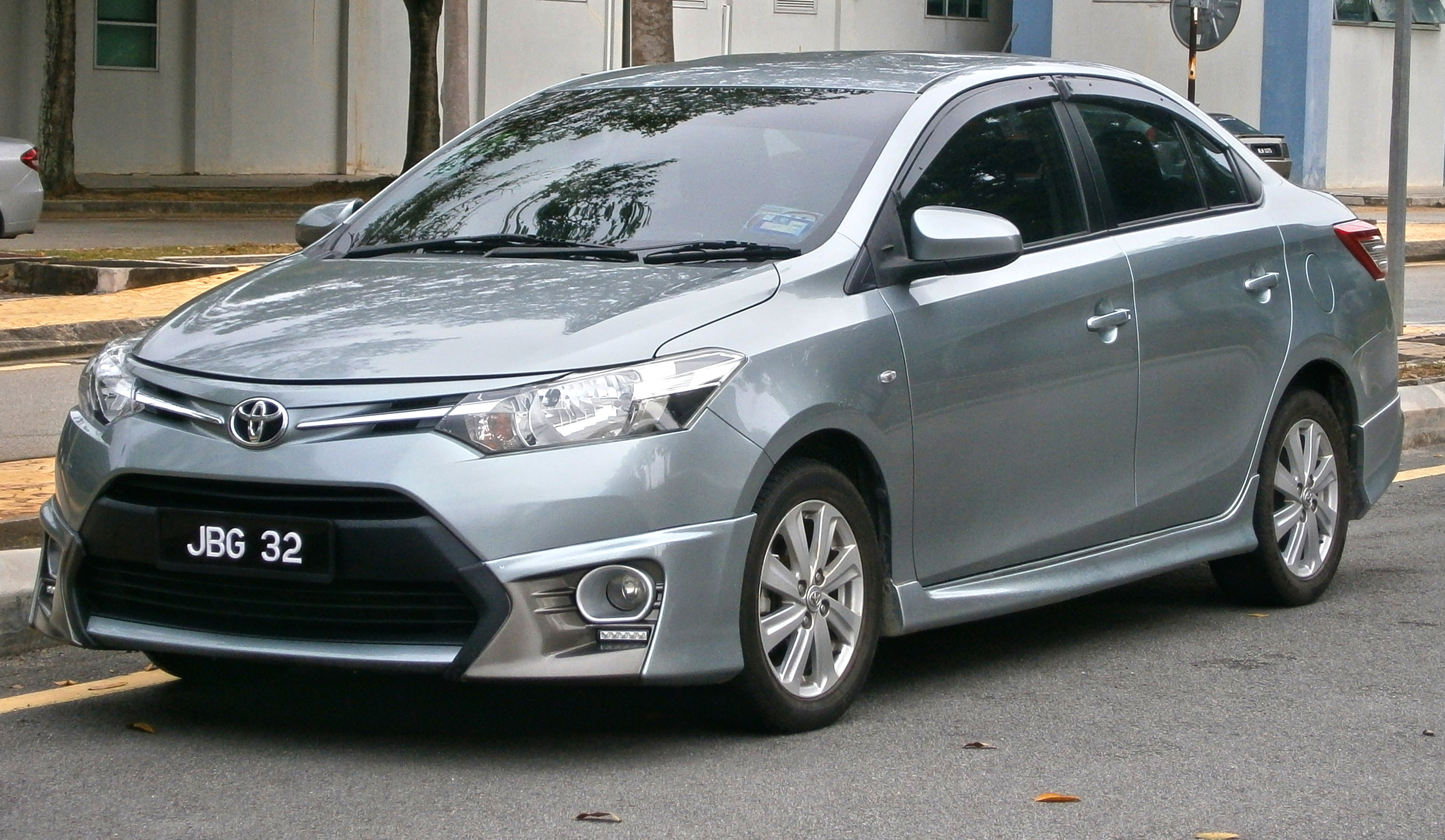 2015 Toyota Vios (XP150) 1.5J 4-door sedan (with optional TRD Sportivo bodykit). Photographed in Cyberjaya, Malaysia